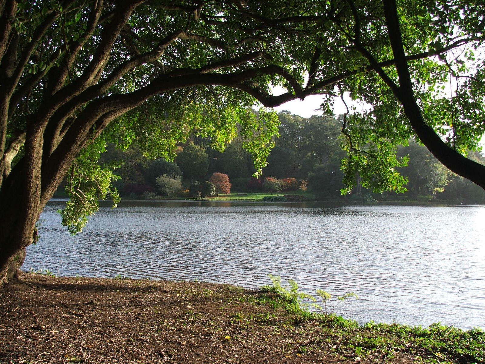 Lake at Mount Stewart, Northern Ireland.